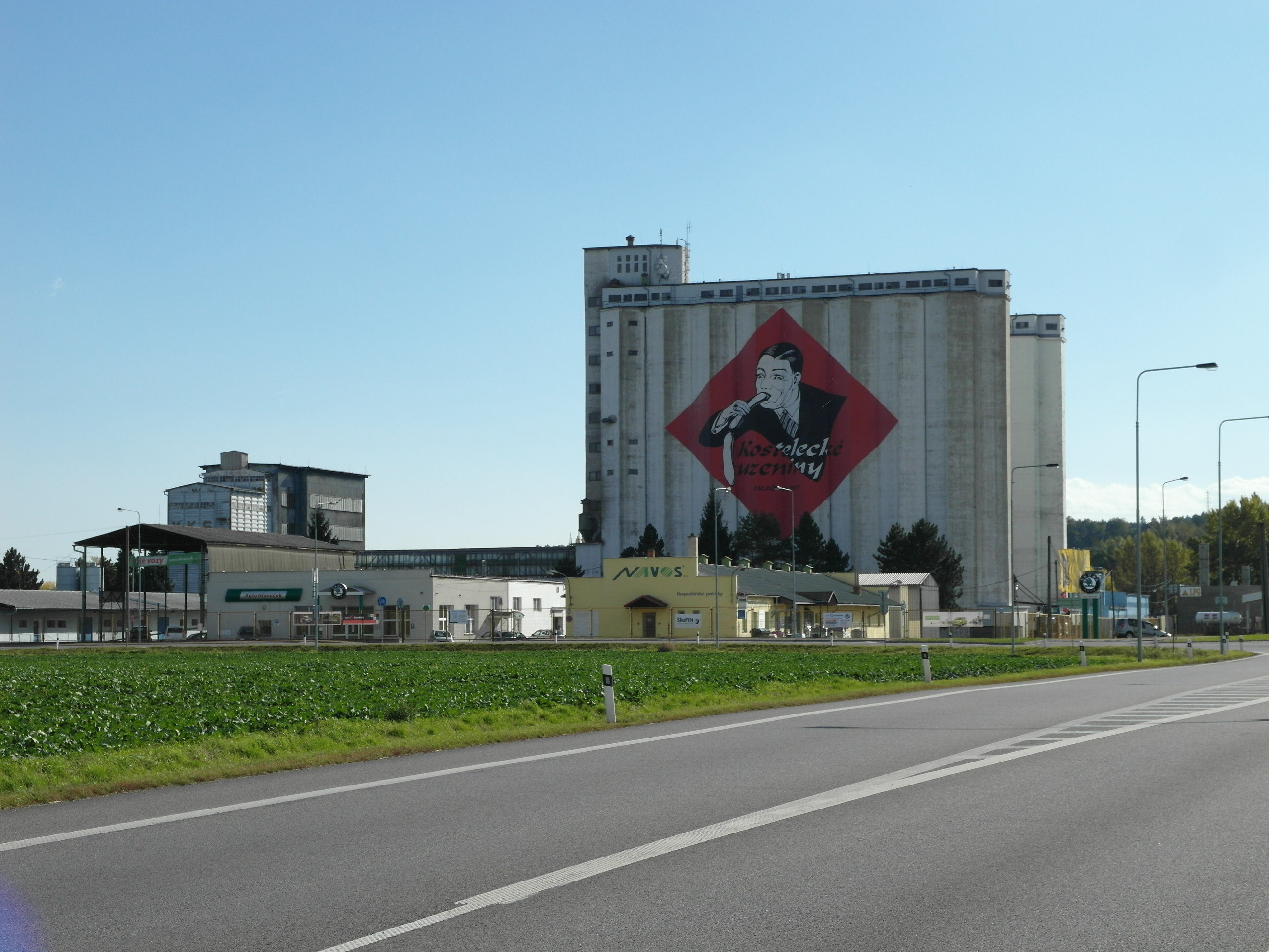 grain silo in Zábřeh town